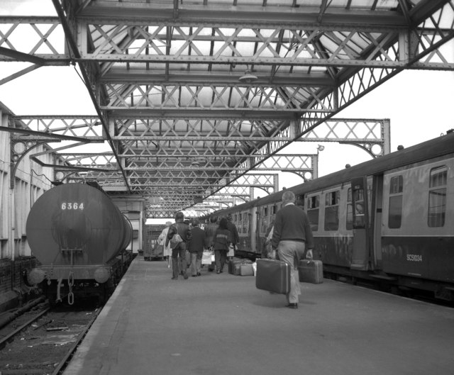 Stranraer station Even by 1978, the direct Carlisle to Stranraer line had lost its passenger service, so it was necessary to travel via Glasgow: often a change at Ayr was also necessary. Stranraer station is situated on the pier, very conveniently for those wishing to take ship for Ireland, but a longish walk for visitors to Stranraer itself.